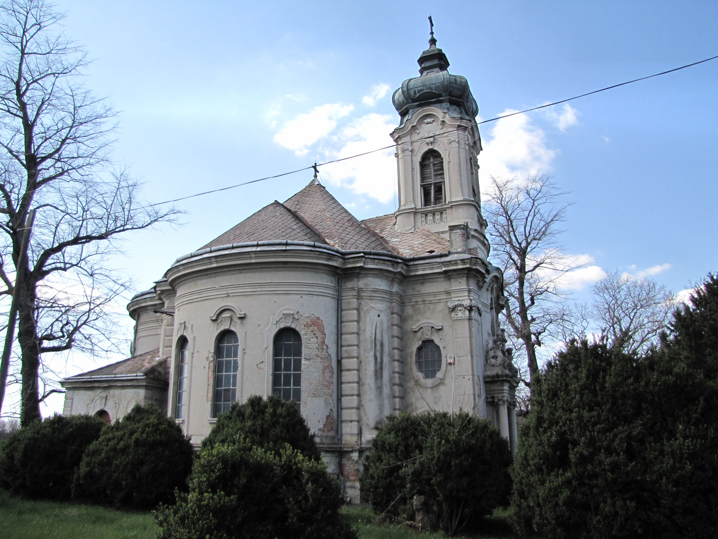 Roman catholic chapel in the cemetery, Pusztaegres-Sárhatvan, Hungary. This is a photo of a monument in Hungary, Identifier: -3139